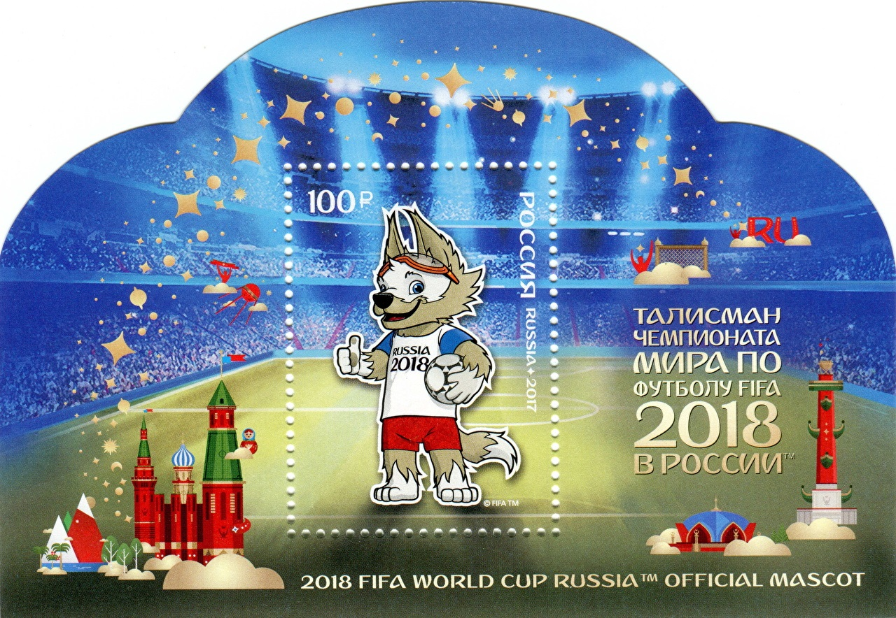 Russian postal stamp block commemorating FIFA 2018 championship and its talisman. Cost 100 roubles.